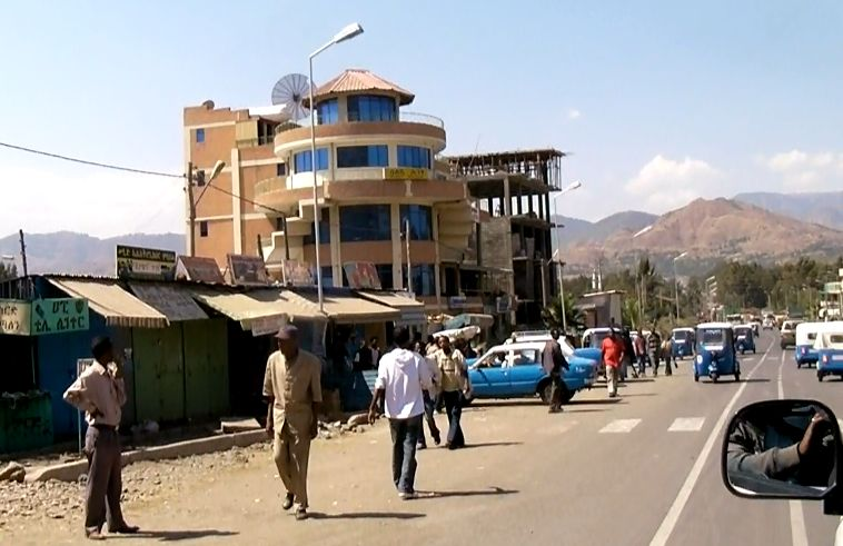 Looking west in central Kombolcha, Ethiopia. Still from a high definition video taken with a Sanyo CS1, some of left and bottom of frame were cropped out.